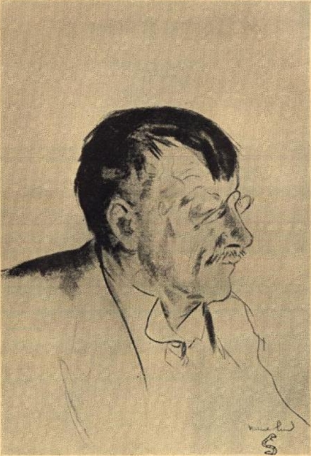 Norwegian writer Nils Kjær.label QS:Len,"Norwegian writer Nils Kjær."